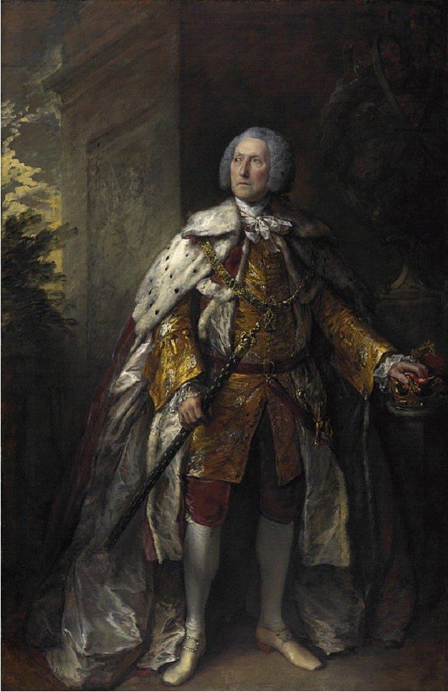 Portrait of John Campbell, 4th Duke of Argyll (c.1693-1770)